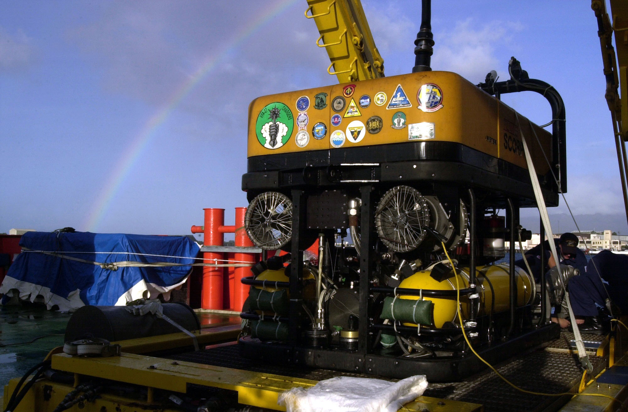 U.S. Navy file photo - (Feb. 14, 2001) The U.S. Navy's Unmanned Vehicle Detachment, located at Naval Air Station North Island, Calif., deployed the remotely operated "Super Scorpio" to Pearl Harbor following the Feb. 9 collision at sea involving the Japanese fishing vessel "Ehime Maru" and USS Greeneville (SSN 772) approximately 9 miles off the coast of Diamond Head, Hawaii. Weather permitting, the "Super Scorpio" team will conduct video surveillance of the sea floor where the sunken "Ehime Maru" is believed to be located in 1800 feet of water. U.S. Navy photo by Photographer's Mate 1st Class Gregory Messier. (RELEASED)